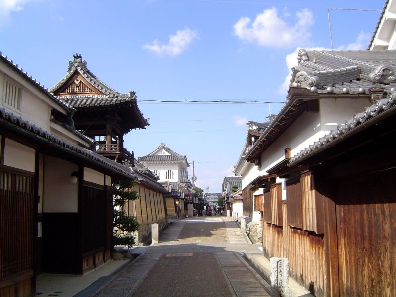 Tondabayashi.